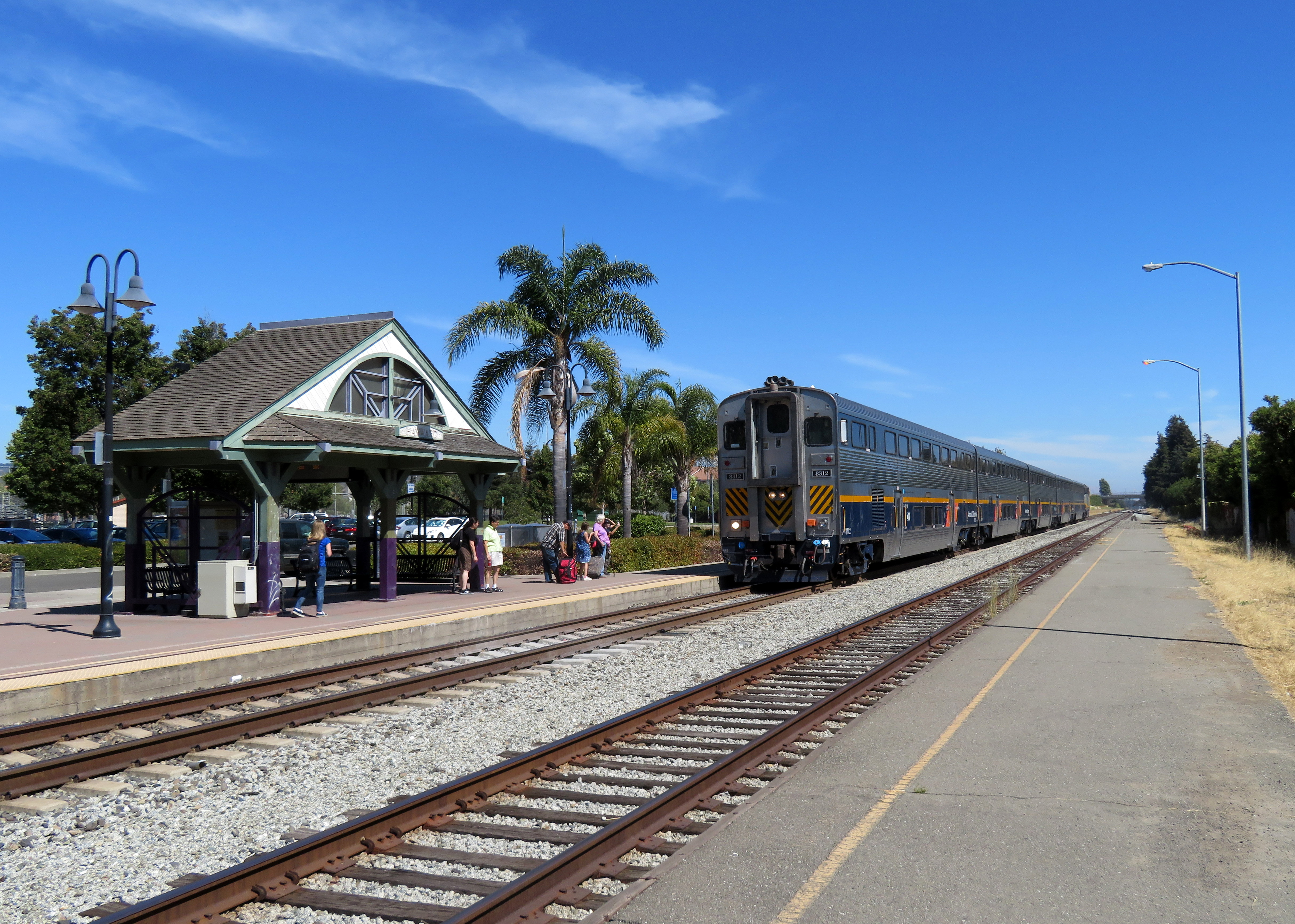 A northbound Capitol Corridor train arriving at Hayward station in July 2018